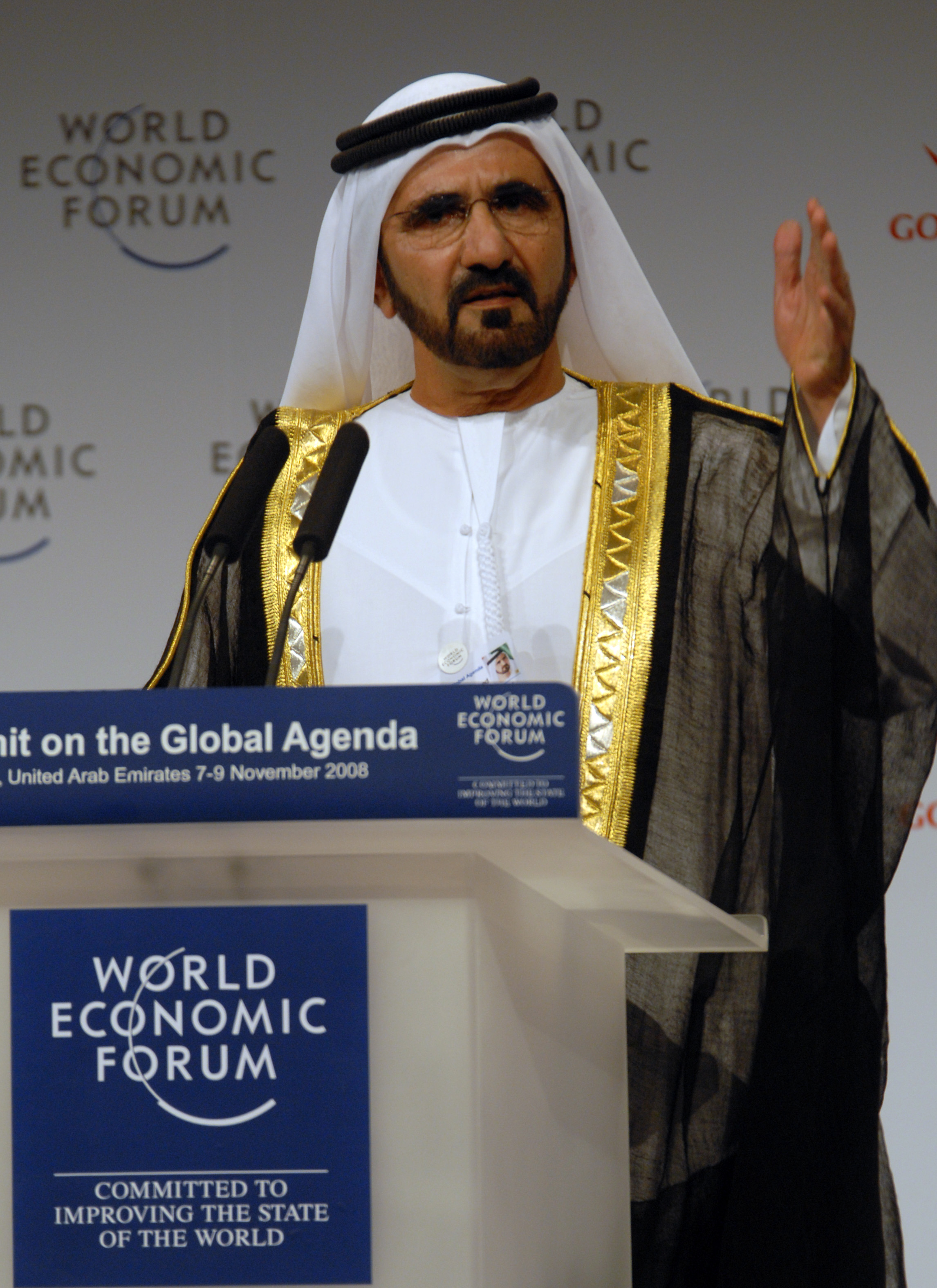 Mohammed bin Rashid Al Maktoum, Prime Minister and Vice President of the United Arab Emirates, at the World Economic Forum Summit on the Global Agenda 2008 in Dubai, United Arab Emirates.